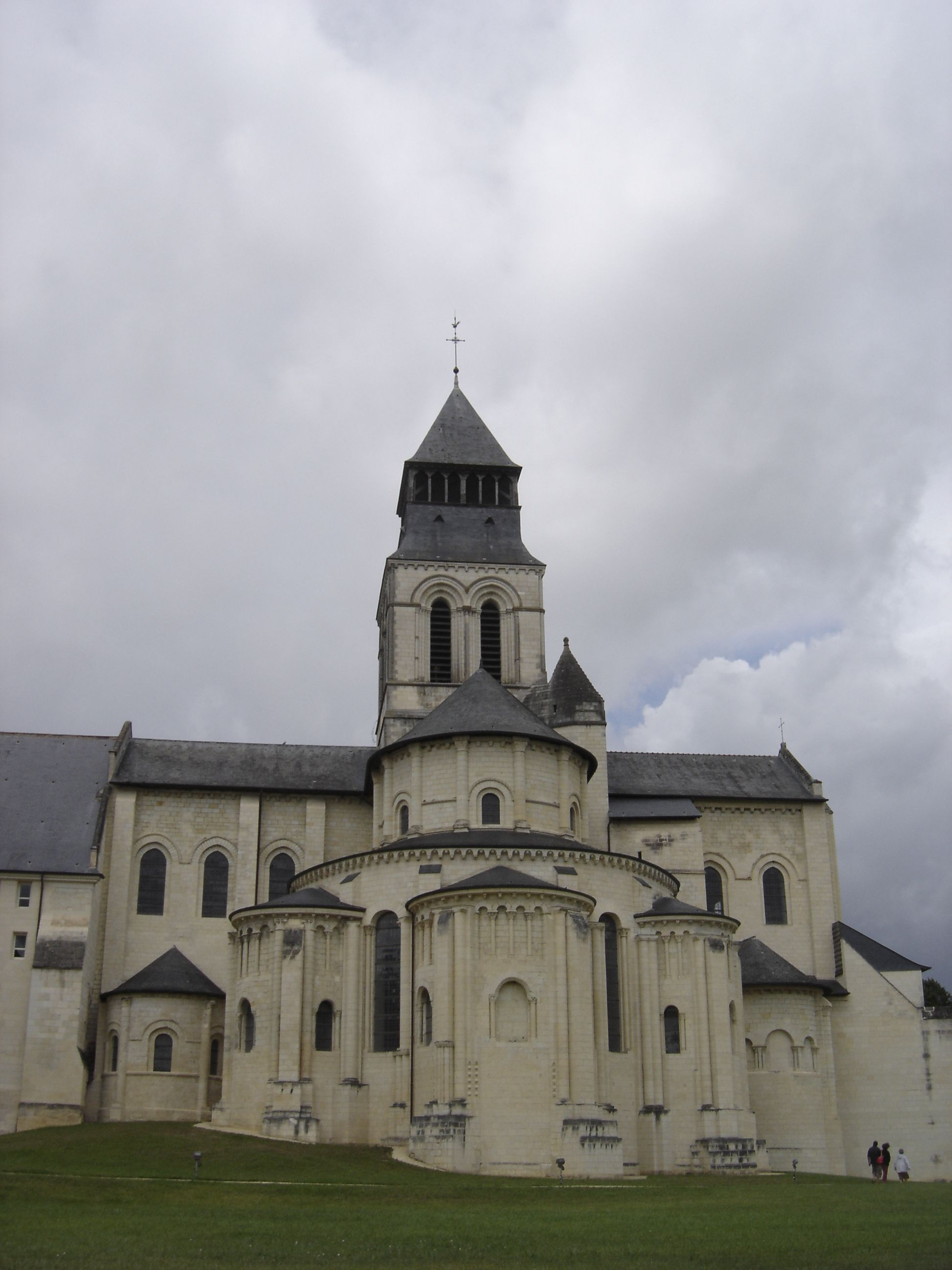 Author : Gérard Janot - August 2006